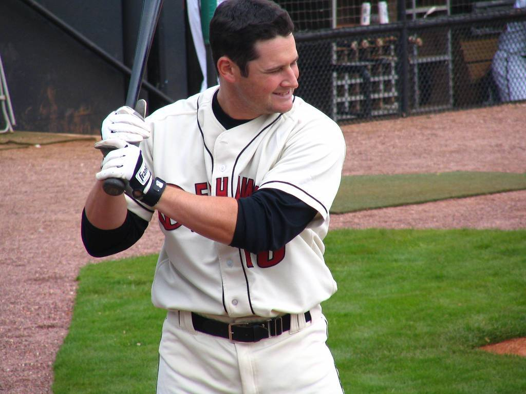 Jason Conti playing for the Oklahoma RedHawks.Marshall McDougall